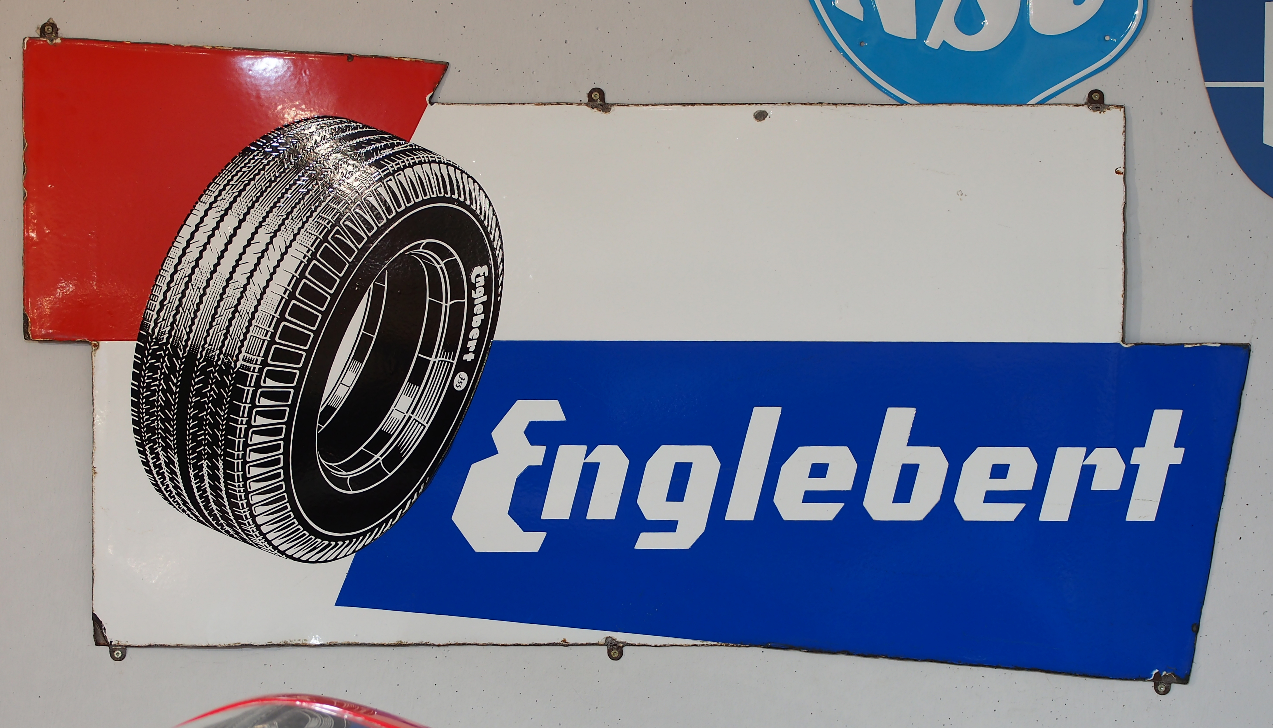 Photographed in the Museum Autovision, Germany.